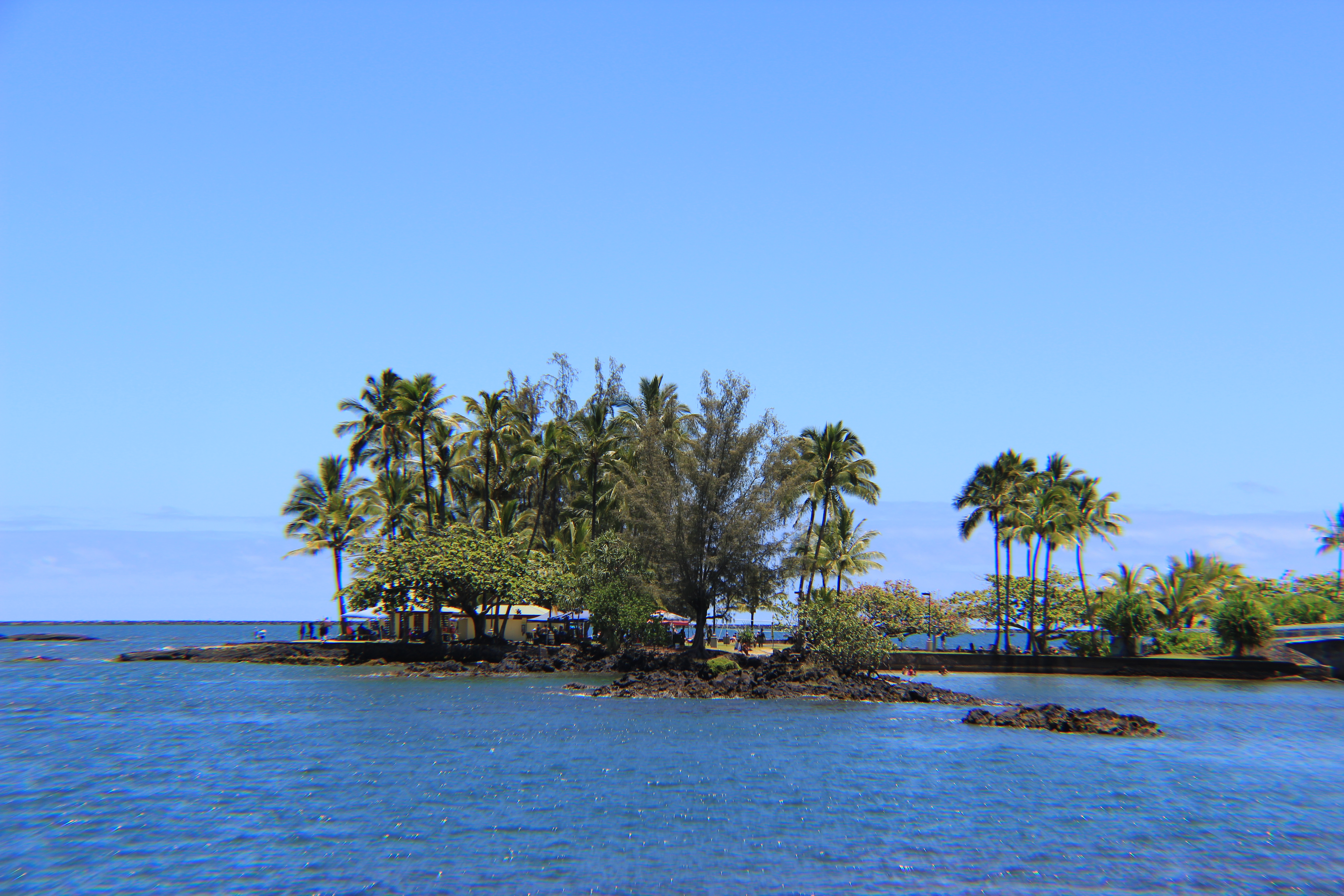 View of Moku Ola from Liliu'okalani Park